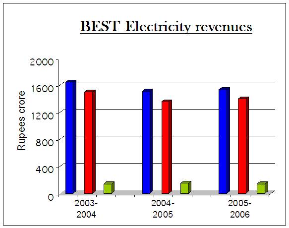 Electricity revenues of the w: Brihanmumbai Electric Supply and Transport. Blue: Income Red: Expenditure Green: Profit/Loss